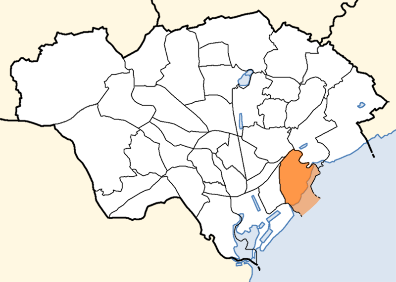 Location map of the community of Tremorfa (post-2016) in Cardiff, Wales. Originally part of the Splott community, Tremorfa didn't get its own community status until 2016.